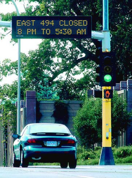 Traffic changeable message signs on surface street